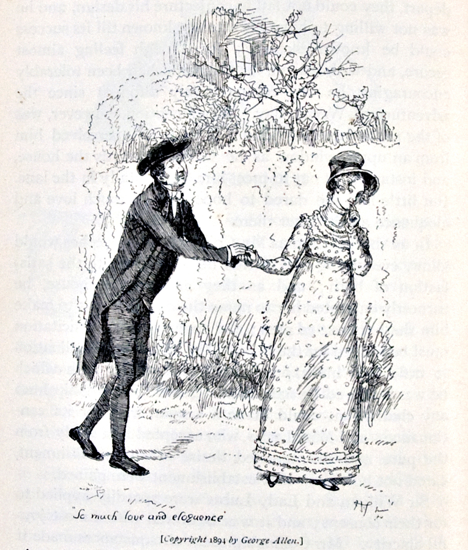 "So much love and eloquence" - Mr. Collins proposes to Charlotte Lucas. Austen, Jane. Pride and Prejudice. London: George Allen, 1894, page 156.